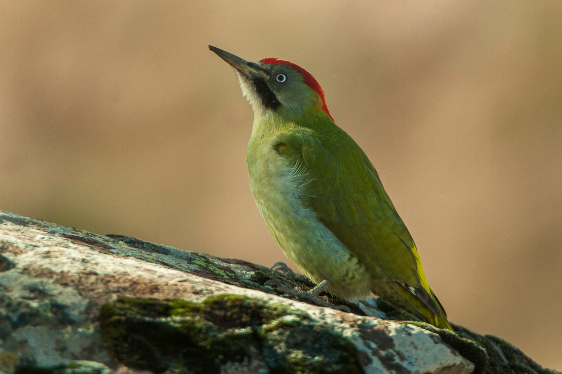 Levaillant's Woodpecker - Oukaimeden Marocco 07_6526